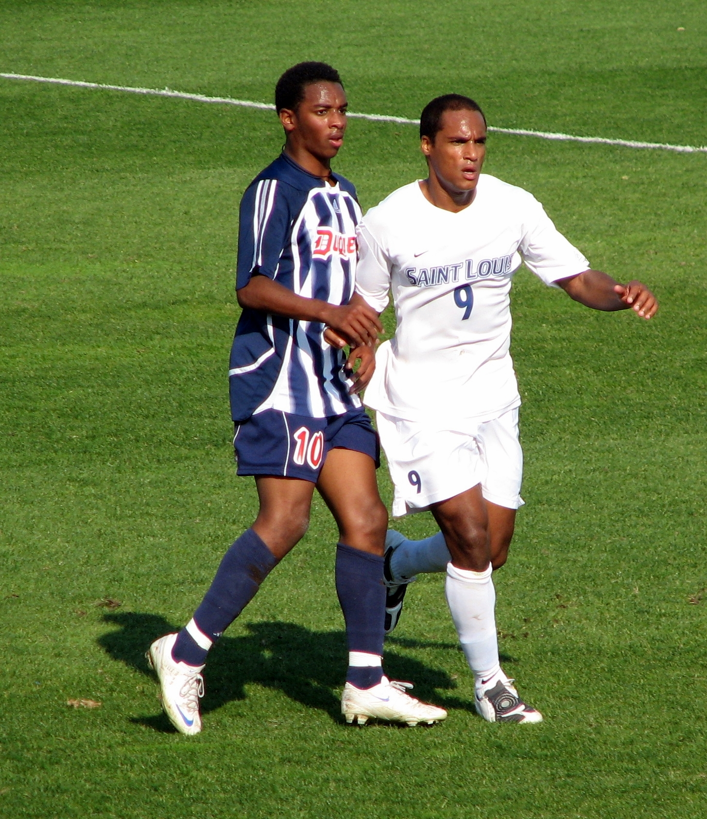 A scene from SLU soccer, SLU vs. Duquesne.